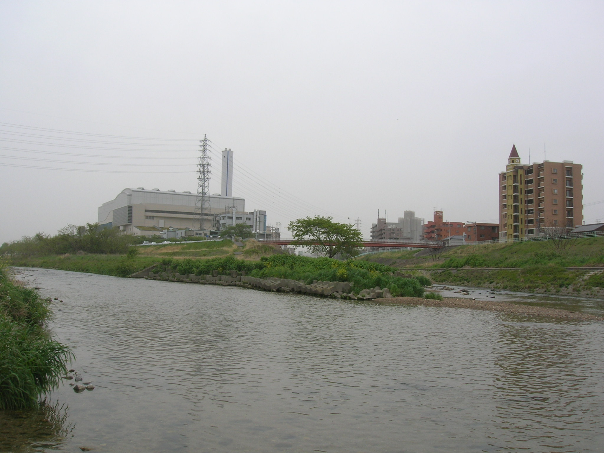 Yada river where Kanare river flows into and Inokoishi incineration plant of Nagoya City